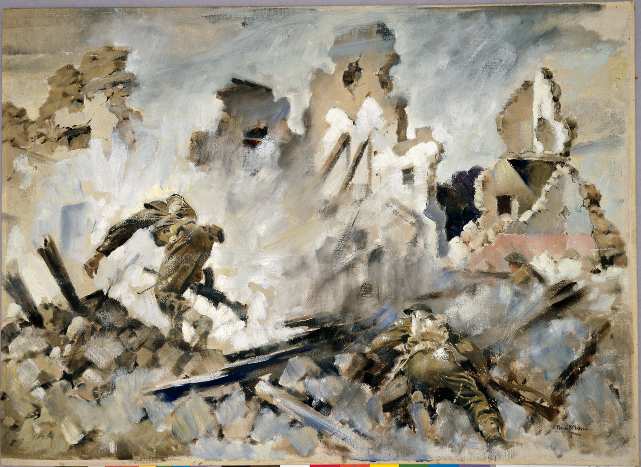 70th Anniversary of the Battle of Monte Cassino, February-May 1944 The Battle of Monte Cassino (also known as the Battle for Rome and the Battle for Cassino) was a series of four assaults over a period of four months by the Allies against the Winter Line in Italy, held by Axis forces during the Italian Campaign of World War II. The fight for Cassino was one of the most brutal and costly campaigns involving New Zealand forces in World War II. The New Zealand soldiers’ biggest involvement came, in the third battle, a major assault which started on 15 March. The town of Cassino was almost totally destroyed by a massive bombing raid, following which the 2nd New Zealand Division forces advanced under cover of an artillery barrage. It would be another two months before the German Wermarcht (unified armed forces of Germany i.e. army, navy and airforce) was dislodged from Monte Cassino. In early April the New Zealanders withdrew from Cassino, having suffered almost 350 deaths and many more wounded. In May 1944 the town finally fell to Allied forces - there had been a heavy cost all round. Rome was taken on 4 June, two days before the Allied invasion of Northern France and D-Day 6 June 1944. Monte Cassino held the historic abbey of St Benedict founded in AD 529 which stood on the hilltop above the nearby town of Cassino. The abbey was destroyed down to the foundation walls, only the crypt survived during the bombardment by Allied forces, the town was also left in ruins. Both the town and the abbey were rebuilt after the war on their original sites. Many of the treasures from the abbey had been removed by the Germans, consequently the archives, library and some paintings were saved. The image is from Archives NZ war art collection and depicts a scene from the Battle of Monte Cassino painted by Peter McIntyre an official World War II artist. War art database Peter McIntyre biography Archives Reference: AAAC 898 NCWA 017